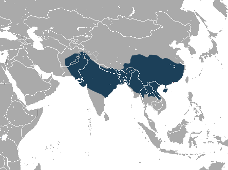 Rhesus Macaque (Macaca mulatta) range